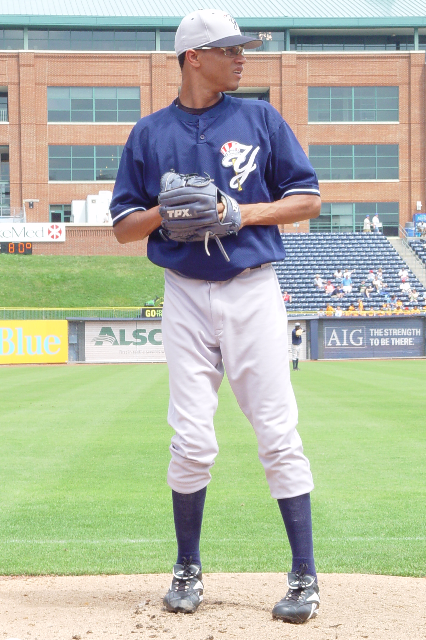 Picture taken by Brad E. Williams (uploader) on June 20, 2007 at Durham Bulls Athletic Park in Durham, North Carolina. 15:17, 17 July 2007 . . Brad E. Williams . . 1,404×2,106 (3.76 MB)